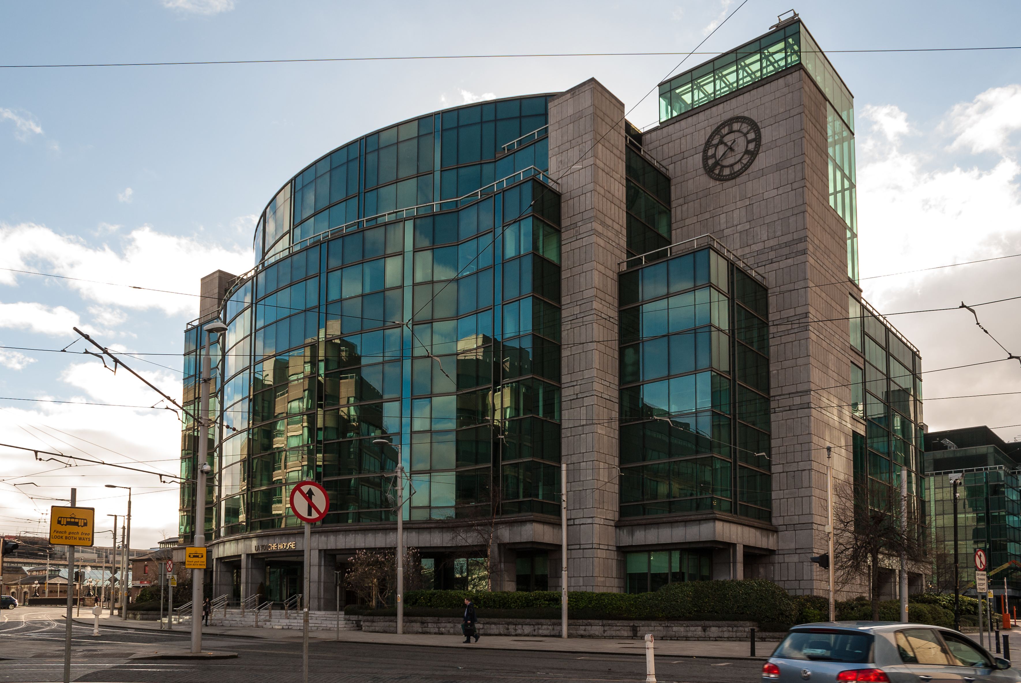 La Touche House, Dublin